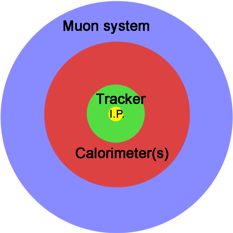 Rough schematic of a hermetic particle physics detector.